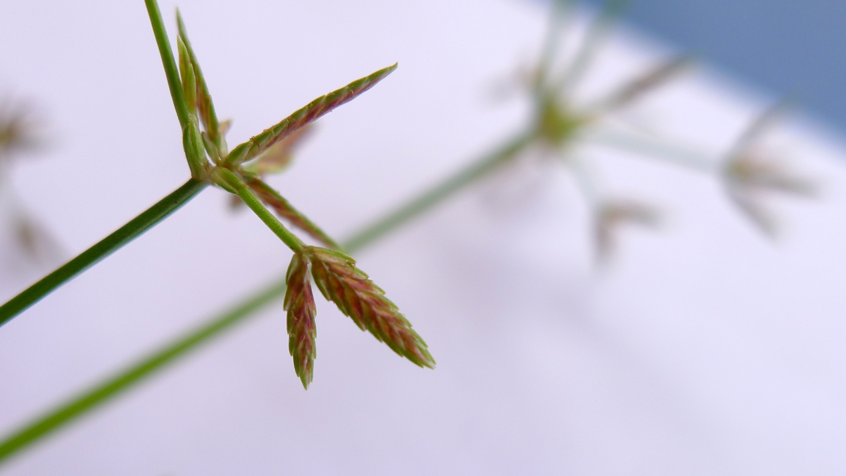 Turners Flat, NSW, Australia, December 2014.